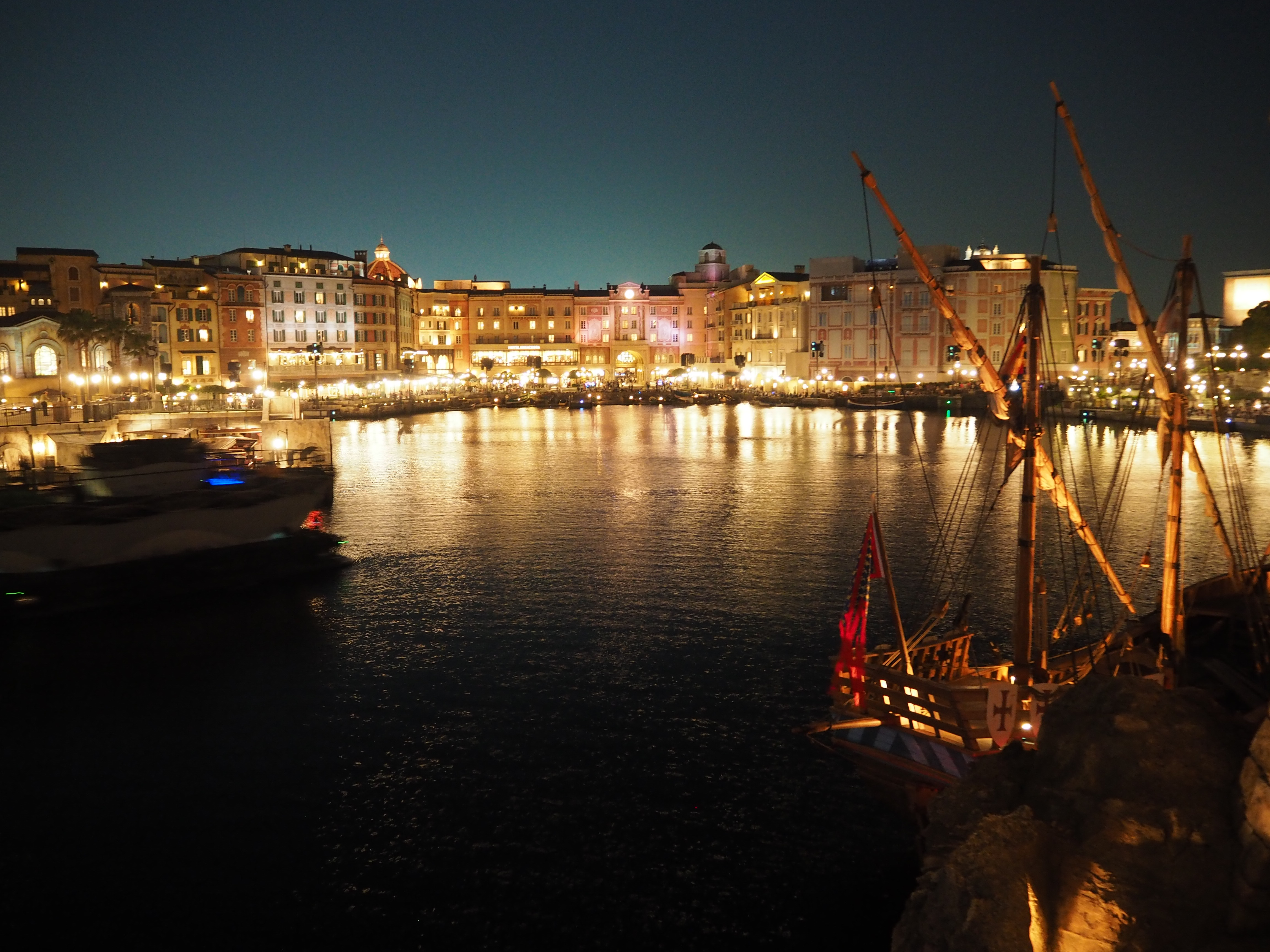 The view of Tokyo Disney Sea in the night. The view is from the castle and look toward the gate. The lake in the view is the main lake that use to perform shows.